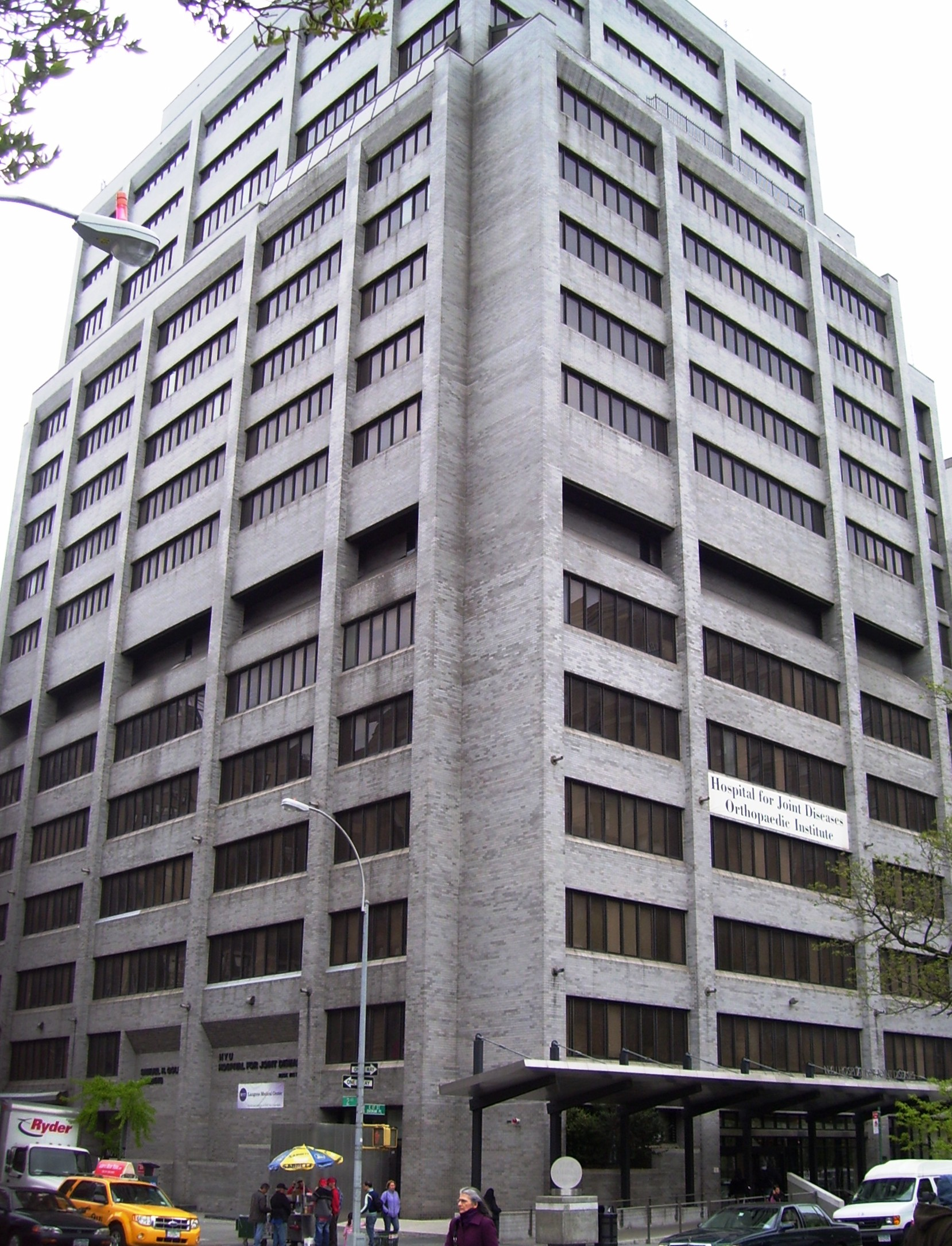 The Hospital for Joint Diseases, on Second Avenue at East 17th Street, in Manhattan, New York City, is a unit of the New York University Medical Center.